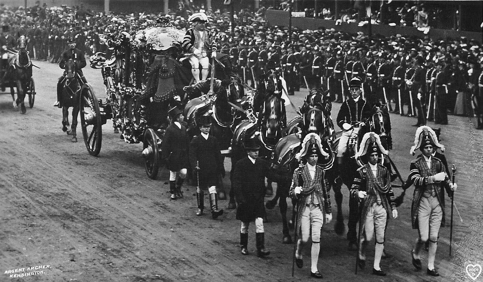 Sir Marcus Samuel, Lord Mayor of London makes his way to Westminster Abbey from Guildhall for the Coronation of Edward VII on Saturday 9th August 1902. The Lord Mayor's State Coach was built in 1757 by a Holborn coach builder in the 'Berlin' style. It is still used today for the Lord Mayor's show and held in readiness for any future Coronations.